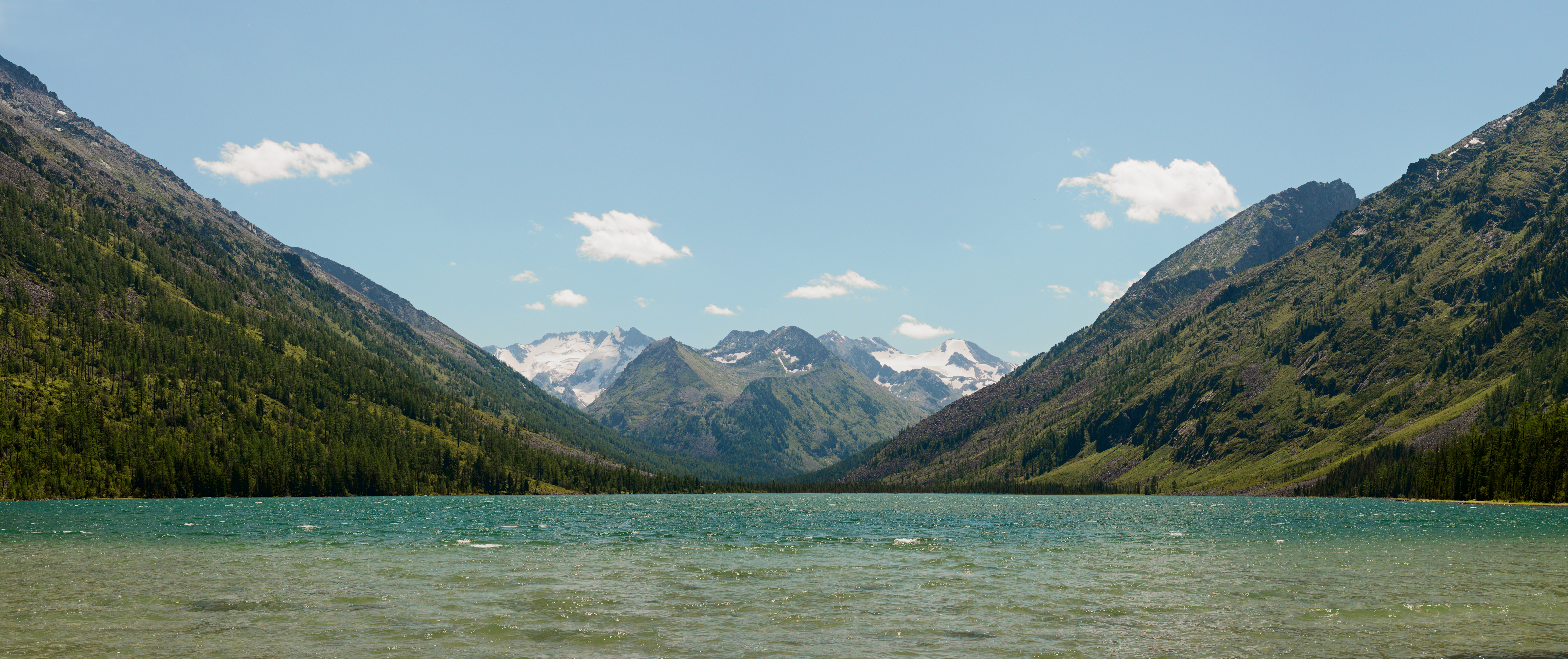 Middle Multinskoe Lake, panoramic views to the south, Ust-Koksinsky District, Altai Republic